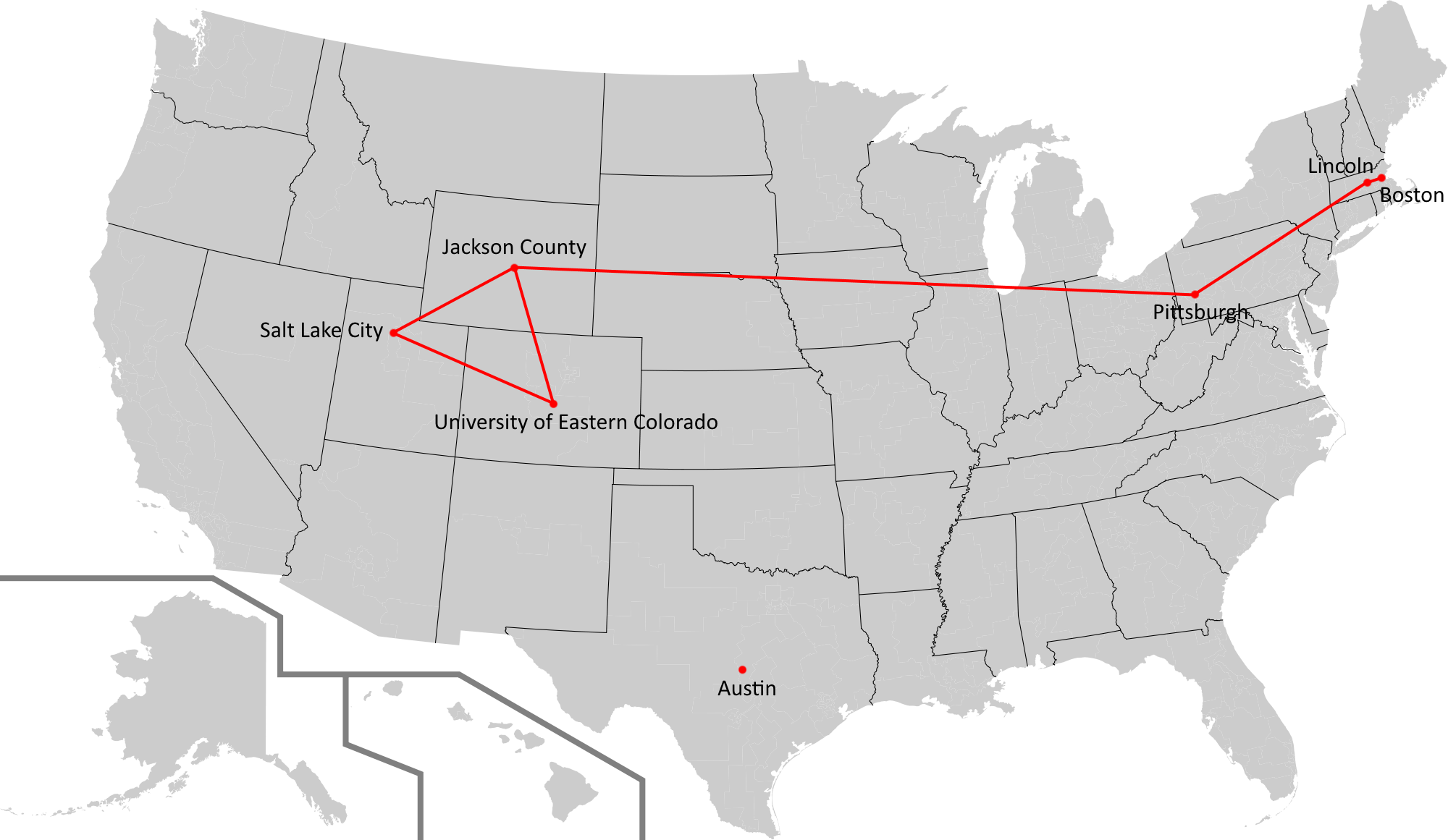 Map of the crossing of United States in the game The Last of Us.